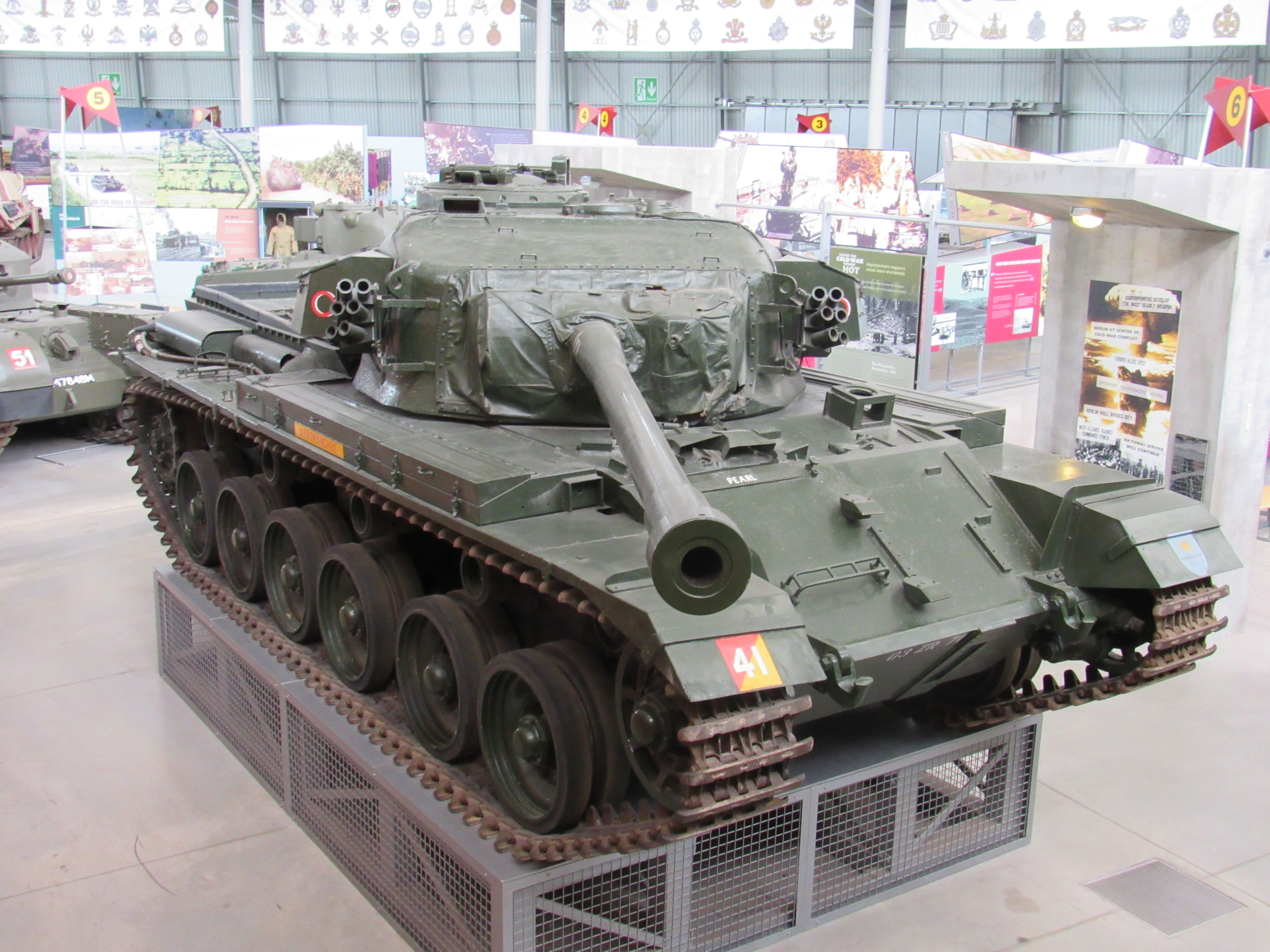 Taken in Bovington Tank Museum